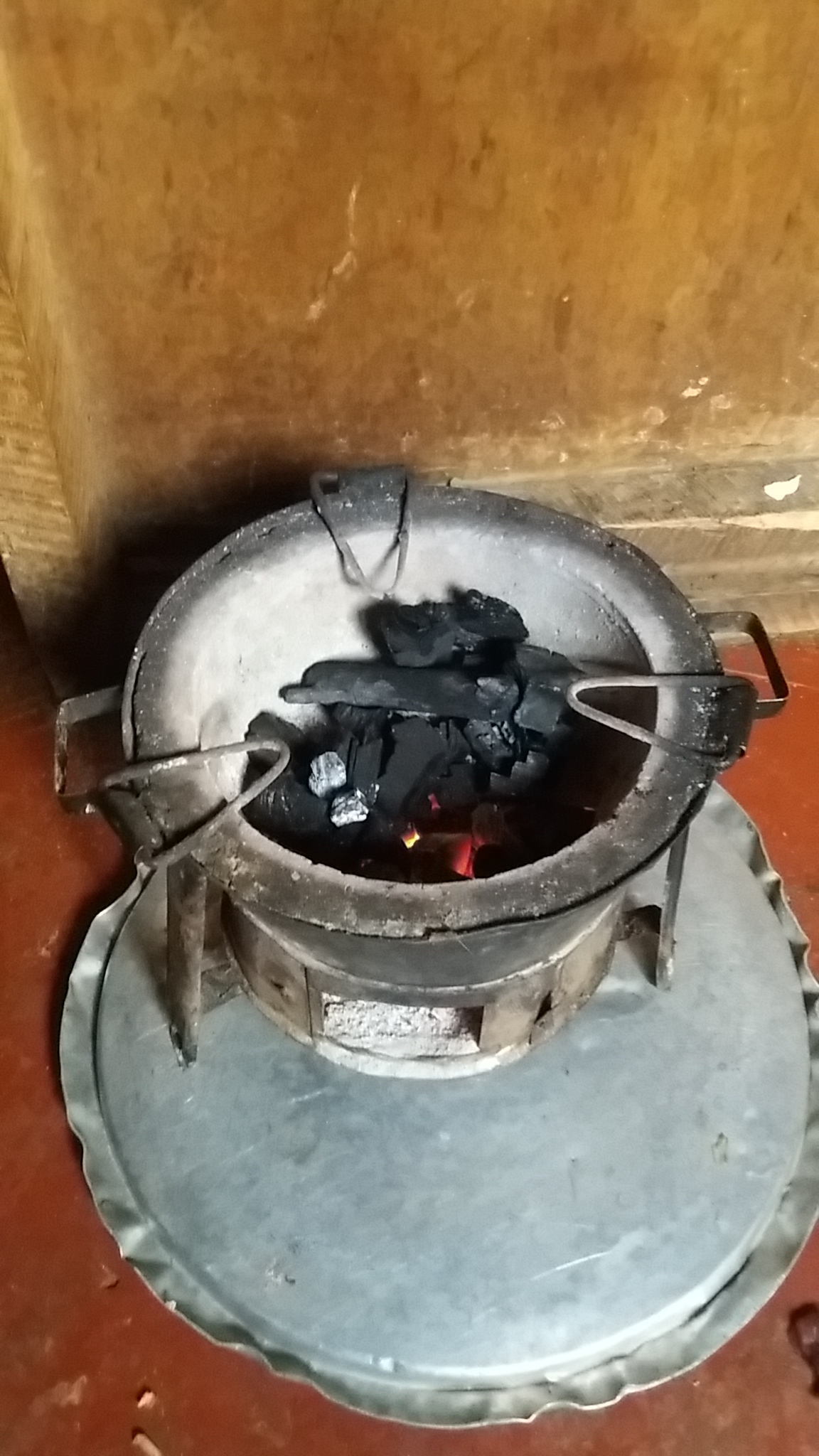 Charcoal burner ( jiko) This is an image with the theme "Africa on the Move or Transport" from: Kenya